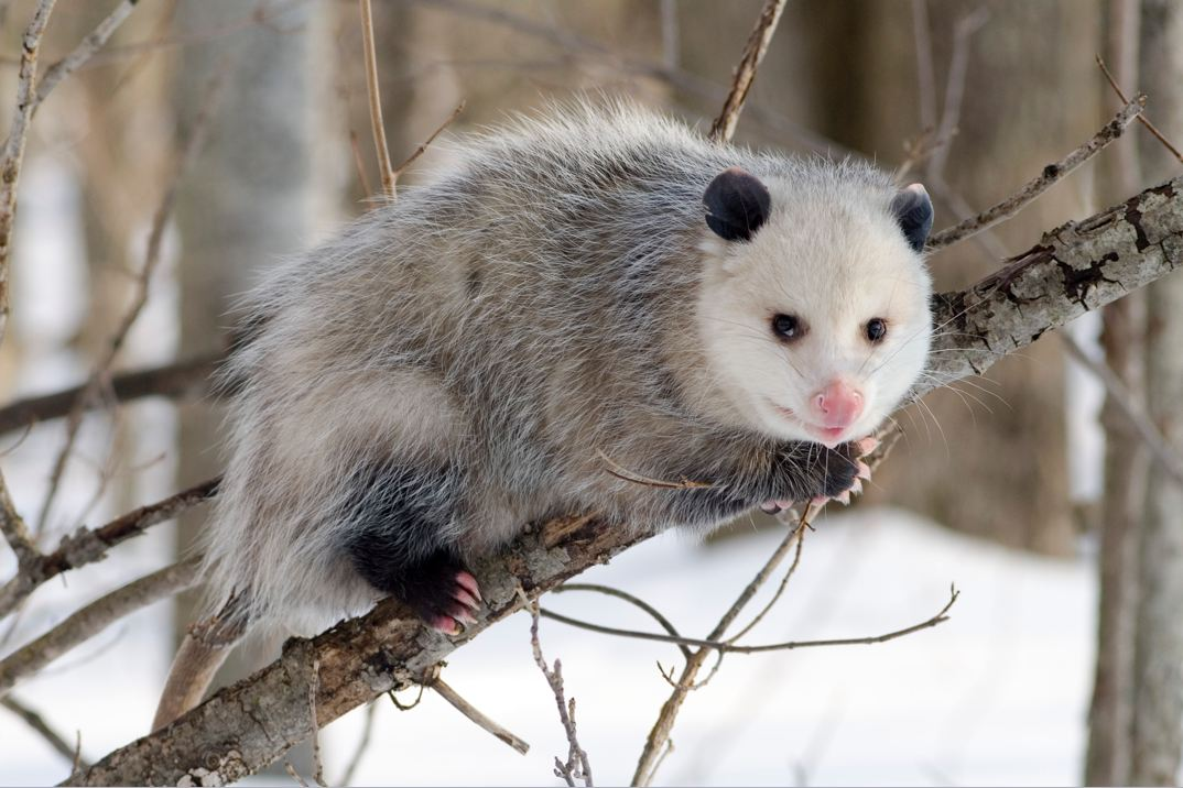 North American Opossum with winter coat.